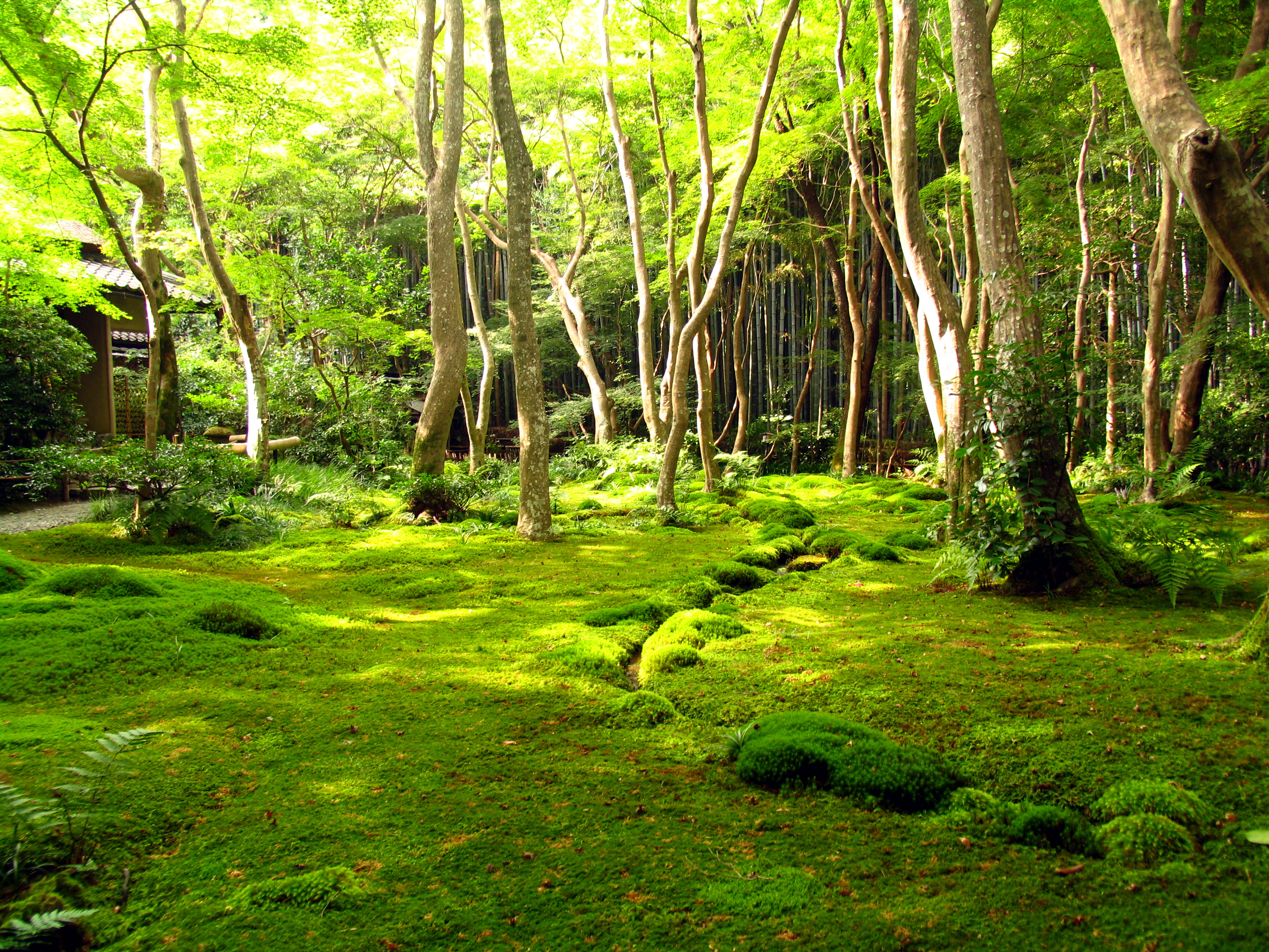 Japanese garden in Gioji temple, in the Arashiyama area northwest of Kyoto.